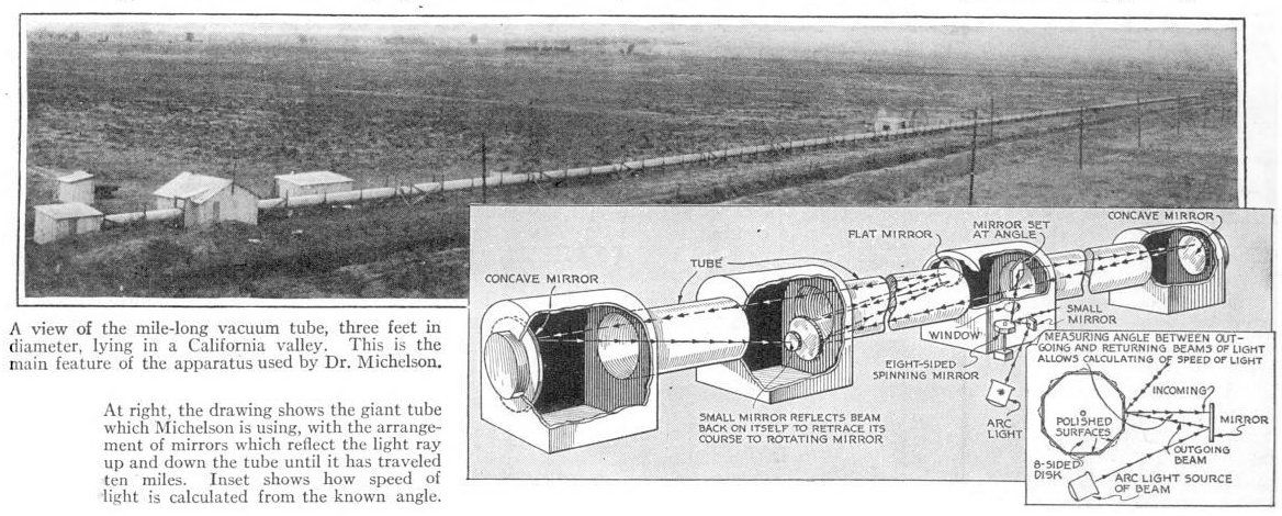 Apparatus used in physicist Albert A. Michelson, Fred Pease and astronomer Francis Pearson's 1930-35 determination of the speed of light. It consists of a mile long 3 ft diameter vacuum chamber in a Southern California valley containing an optical system with two large concave mirrors at either end. Inside the vacuum chamber a beam of light from an arc lamp is reflected from an eight-sided mirror spinning at 512 revolutions per second, then makes ten passes through the tube, after which it returns and reflects again from the same face of the mirror. During the light beam's ten-mile journey the mirror rotates through a small angle, so the reflected beam has a small angle to the outgoing beam. The apparatus measures this angle, which is proportional to the time of flight of the beam. The tube is evacuated to a pressure of about 10 Torr. E. C. Nichols designed the optics. Michelson died in 1931 with only 36 of the 233 measurement series completed, but Pease and Pearson carried on. The experiment's accuracy was limited by geological instability and condensation problems, but in 1935 a result of 299,774 ± 11 km/s was obtained, the most accurate measurement of the speed of light to that date.